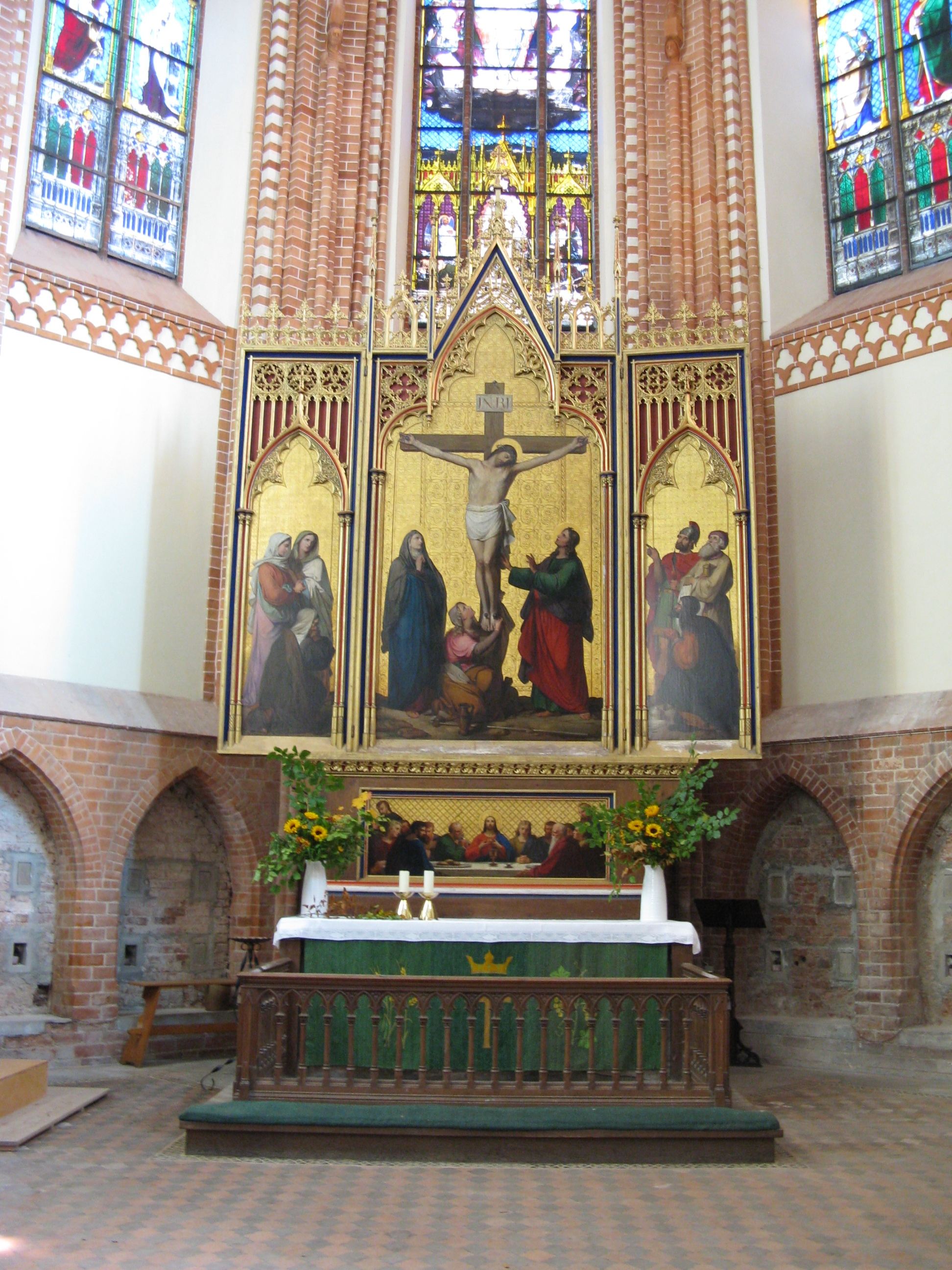 Altar in the church of the monastery in Dobbertin, district Parchim, Mecklenburg-Vorpommern, Germany